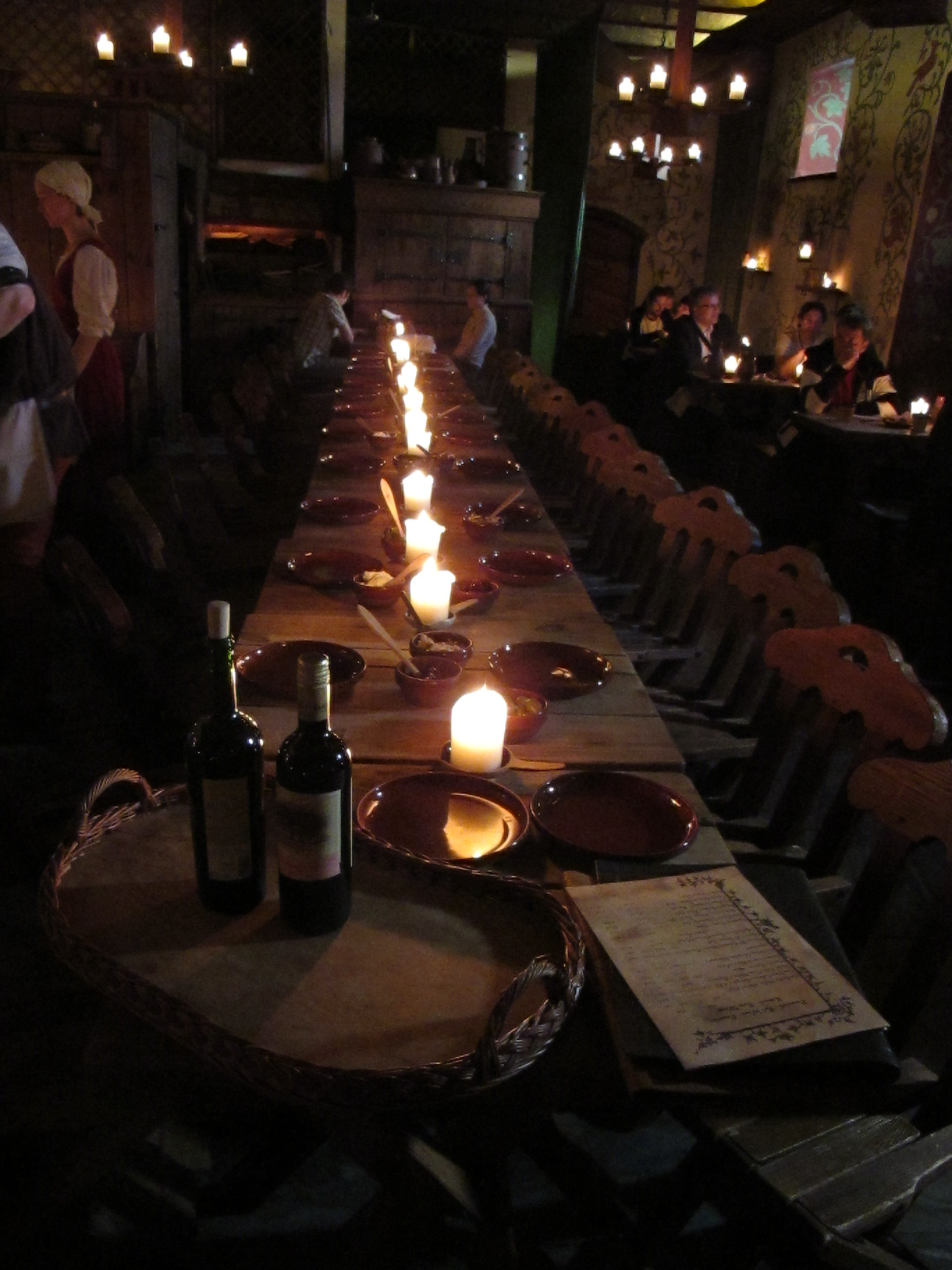 Candlelit interior of Olde Hansa restaurant in Tallinn, Estonia